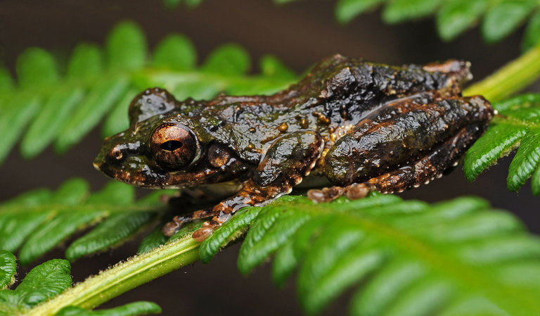 Polypedates naso in Khellong, Eaglenest Wilidlife Sanctuary (West Kameng District, Arunachal Pradesh, India)